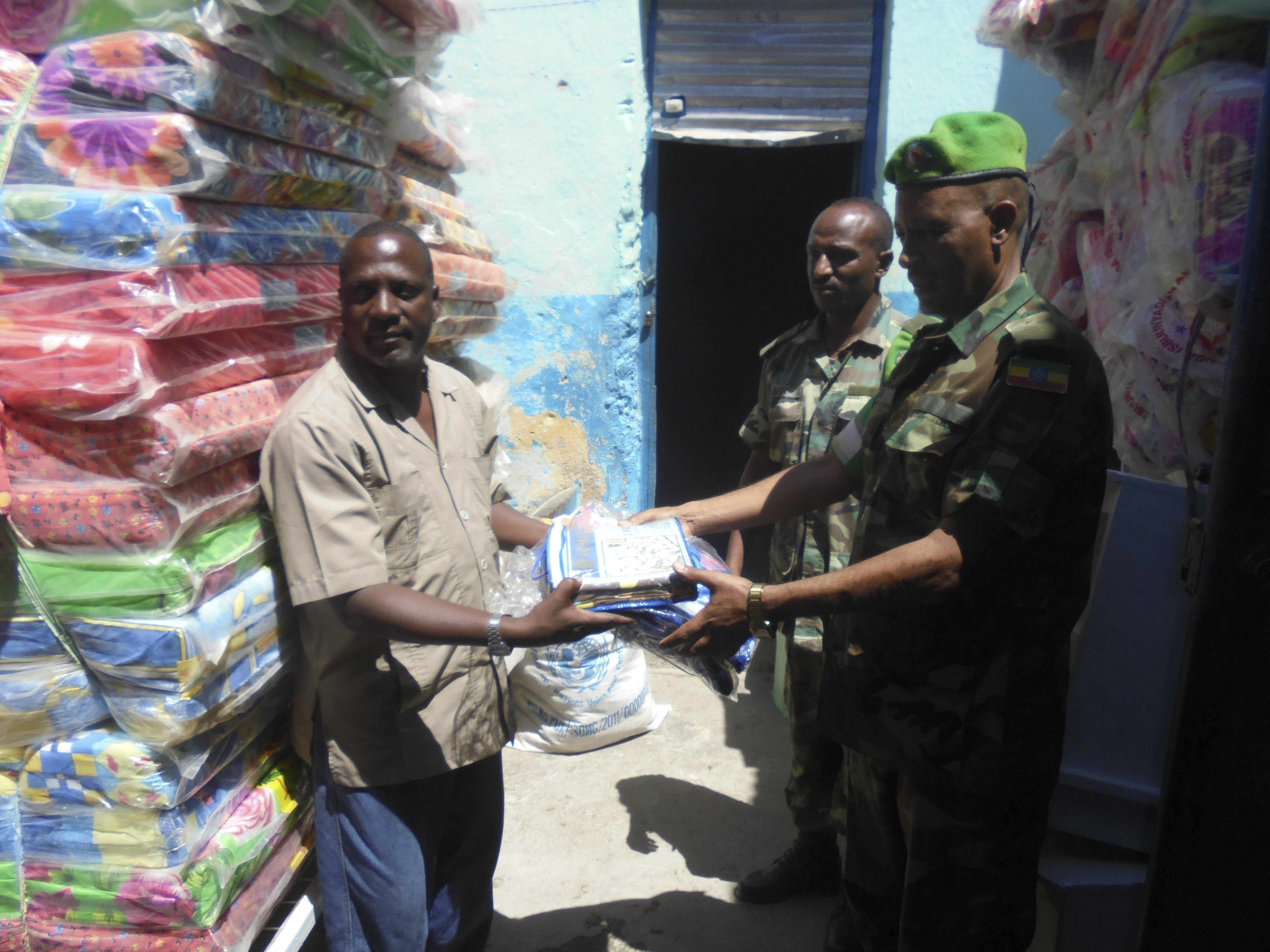 AMISOM today (Saturday 21) handed over an assortment of items including beds, mattresses, bed sheets, blankets, pillows, cupboards and medicine that could last for one year to Community Mental Health Care Center (CMHCC) in Baidoa, a mental health facility. The items were handed over by AMISOM CIMIC officer Col. Gabrehawari Fitwi and were received by the mental health care manager Adan Abdirahman Mohamed. AMISOM Photo